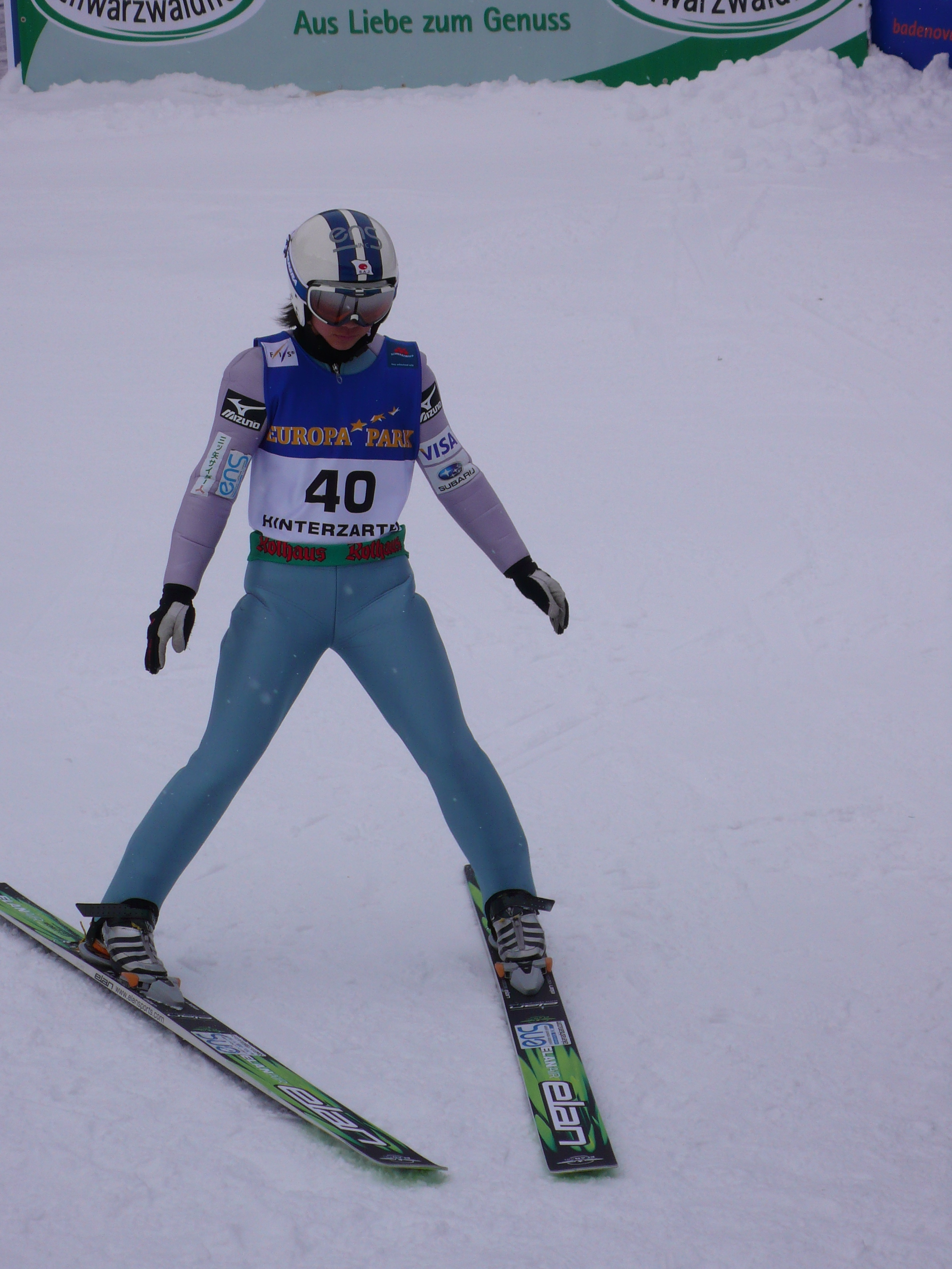 Sara Takanashi: after the second jump, during the World Junior Championship of Nordic Skiing in Hinterzarten on the 2010-01-30